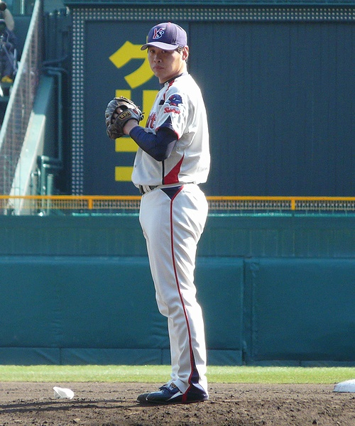 YS-Takehiko-Oshimoto20120314